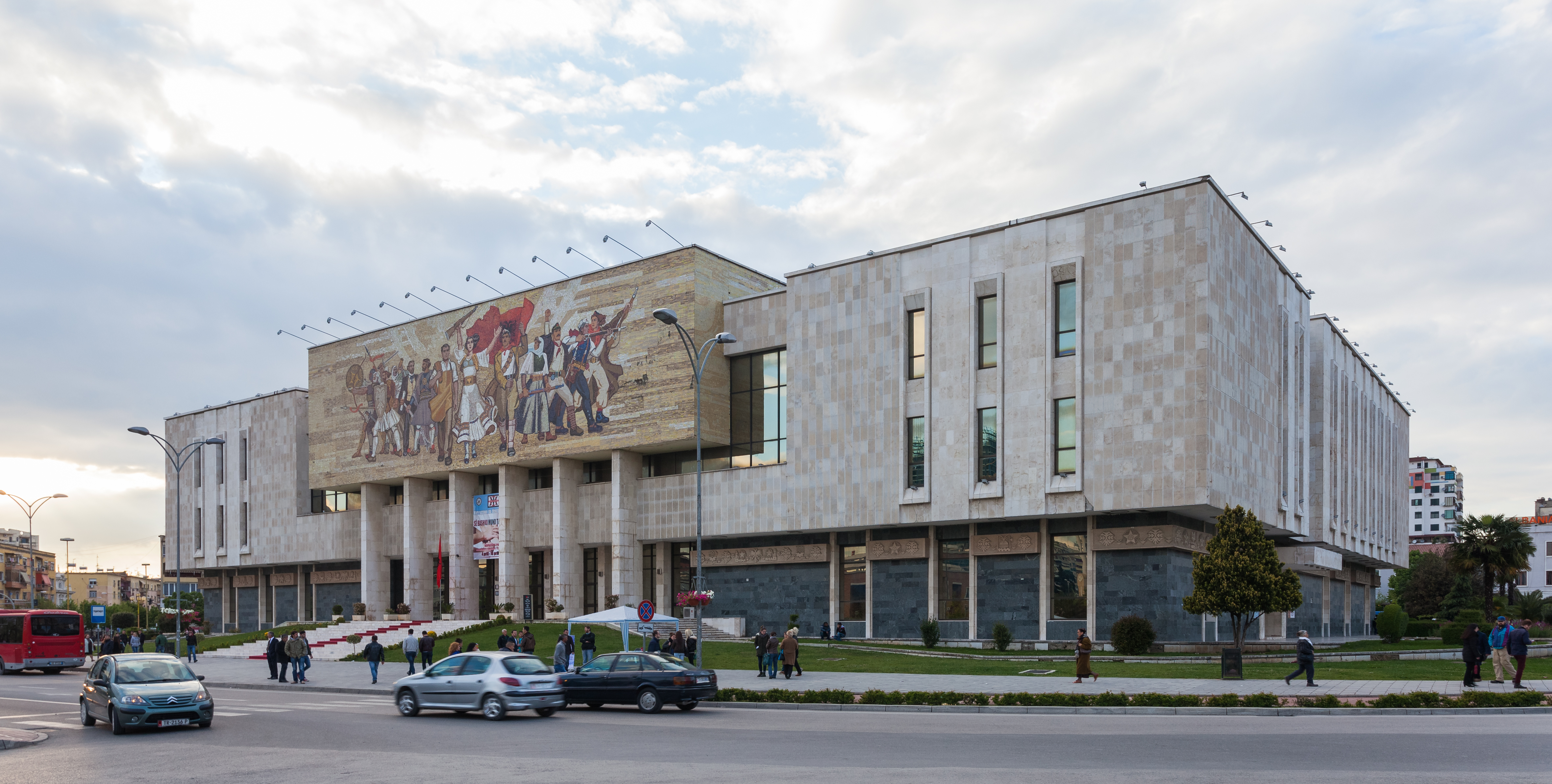 National Historical Museum, Tirana, Albania